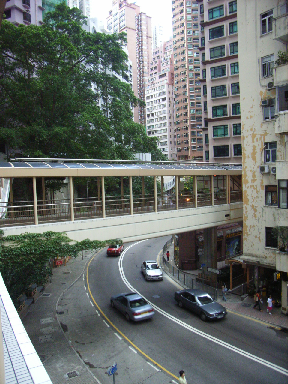 The Central-Mid-Levels escalators also cross over the Robinson Road, Hong Kong. 羅便臣道 CandyRobin's production